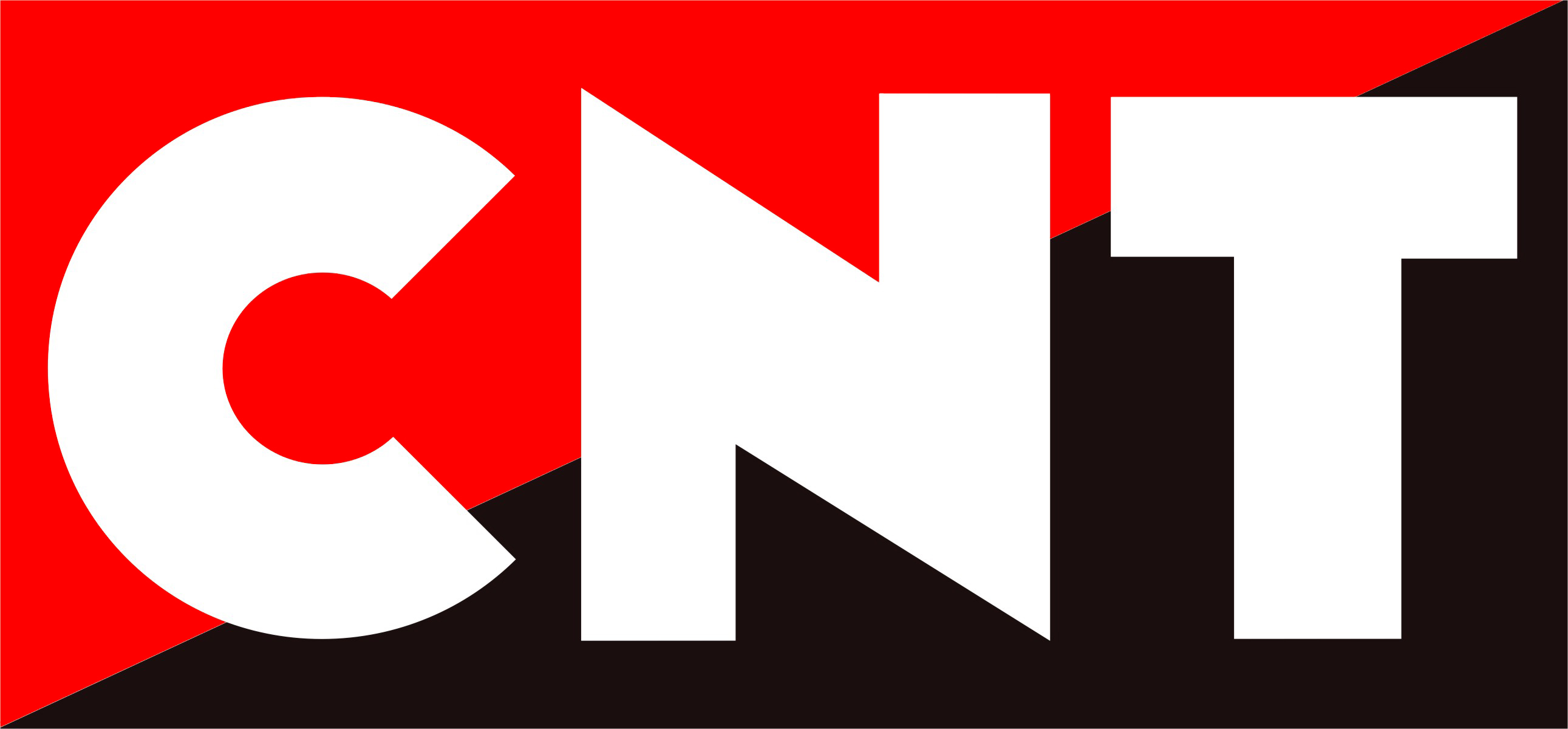 CNT logo